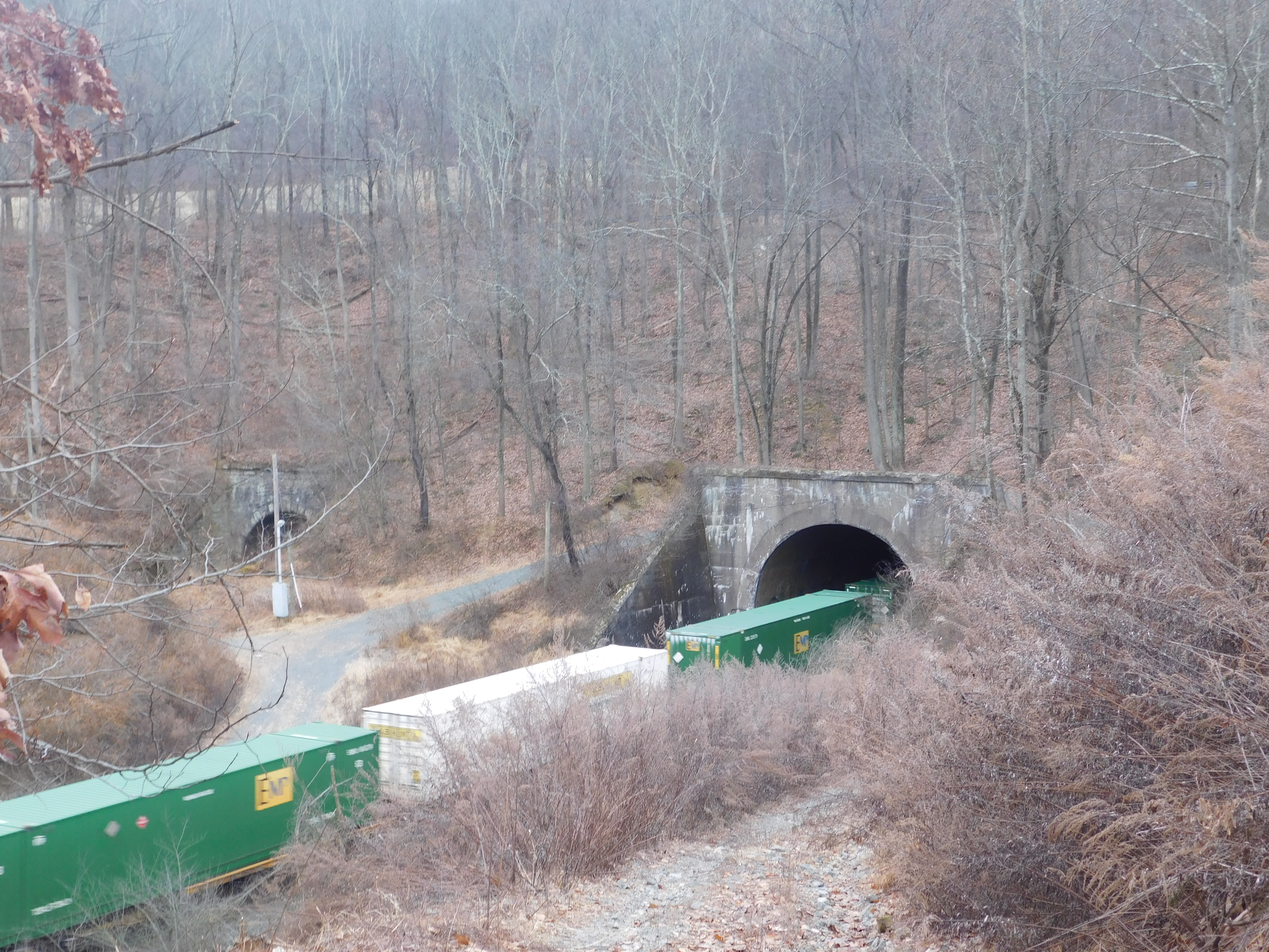 A train crosses through the former Lehigh Valley Railroad West Portal of a tunnel in West Portal, New Jersey.